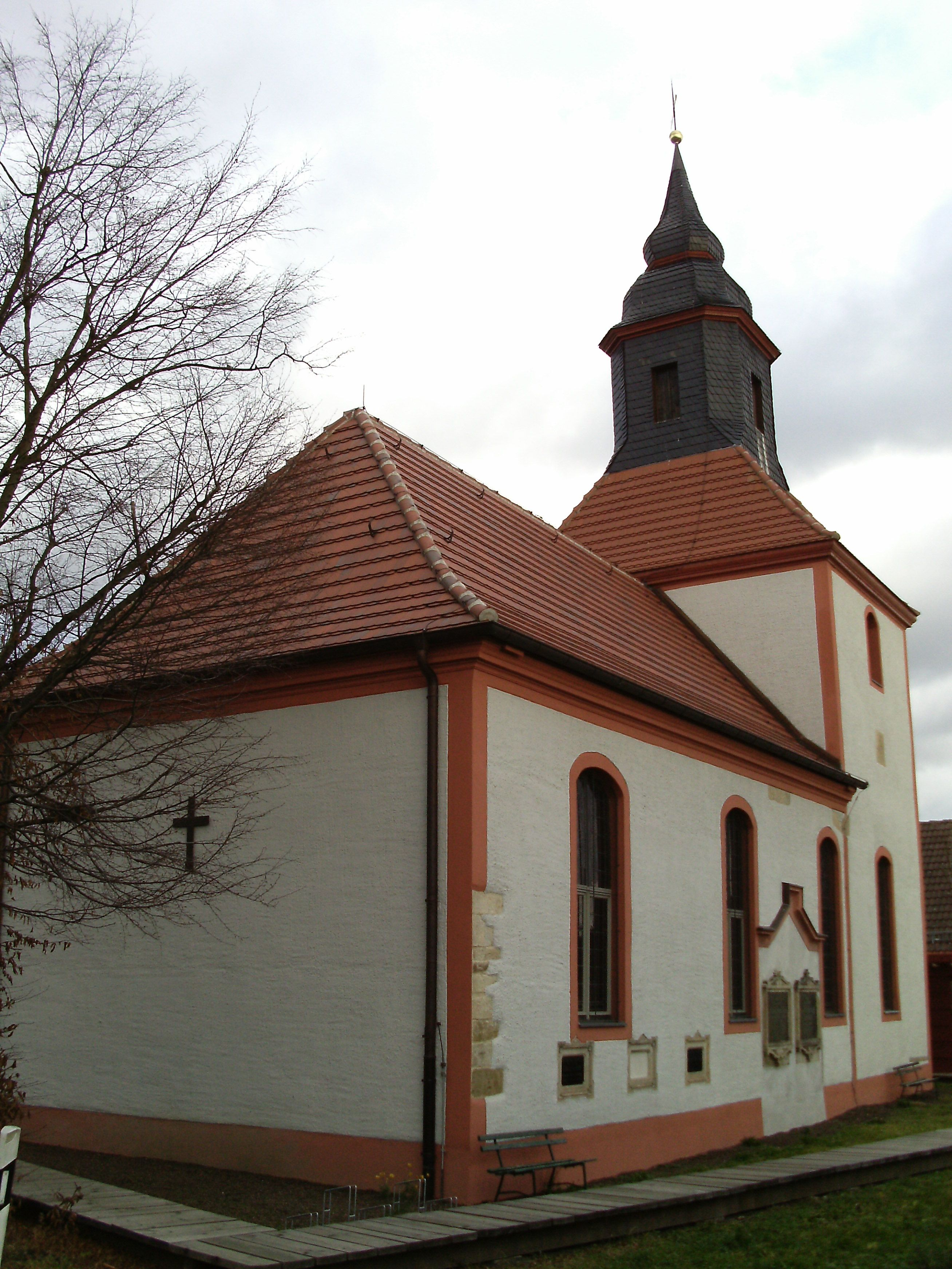 Church of Kleinliebenau estate (Schkeuditz, Nordsachsen district, Saxony)